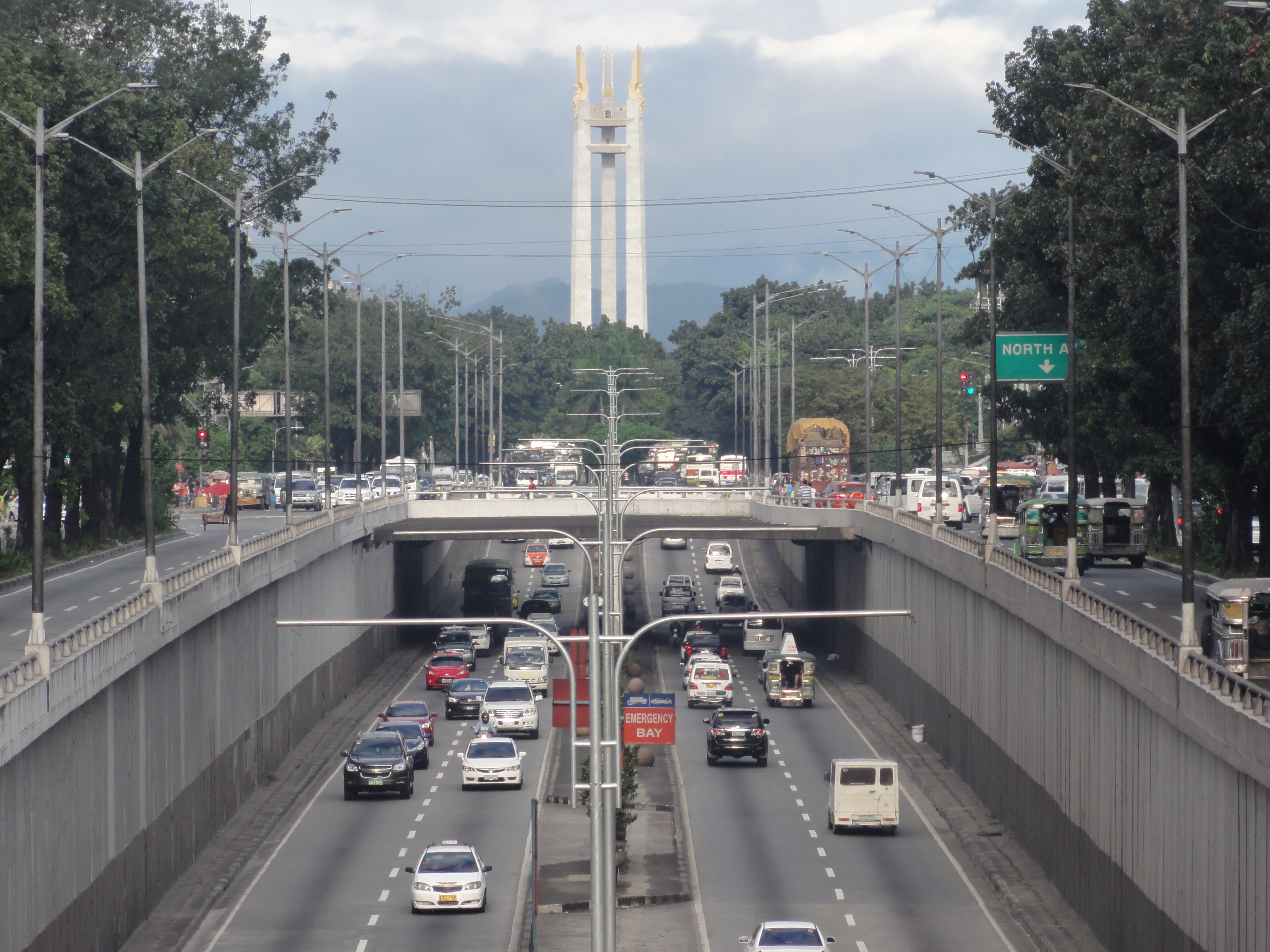 EDSA-Quezon Avenue underpass in Quezon City. Also visible is the Quezon Memorial Cricle's monument tower